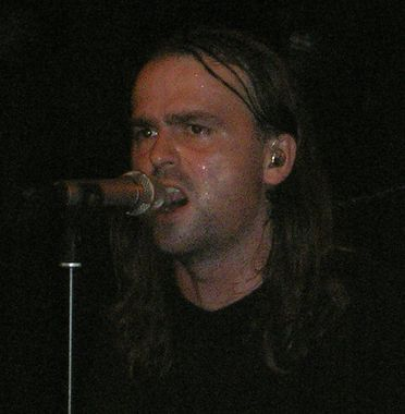 Hansi Kürsch of Blind Guardian performing live in Hamburg, September 18th 2006.